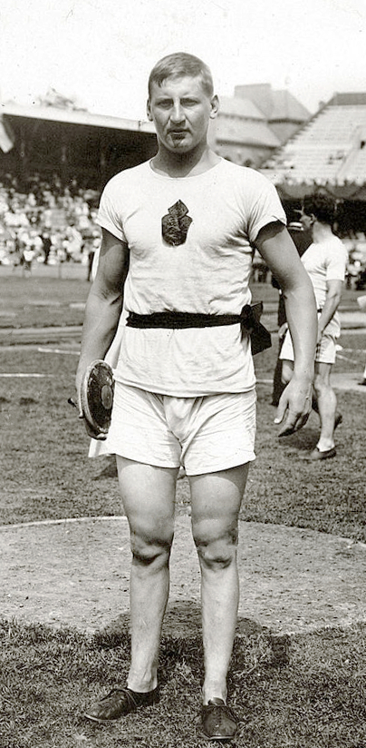 Olympic Games, Stockholm, Sweden, Discus, Finland's Taipale